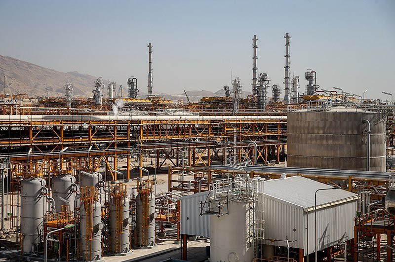 South Pars Onshore Facilities near Asaluyeh City.